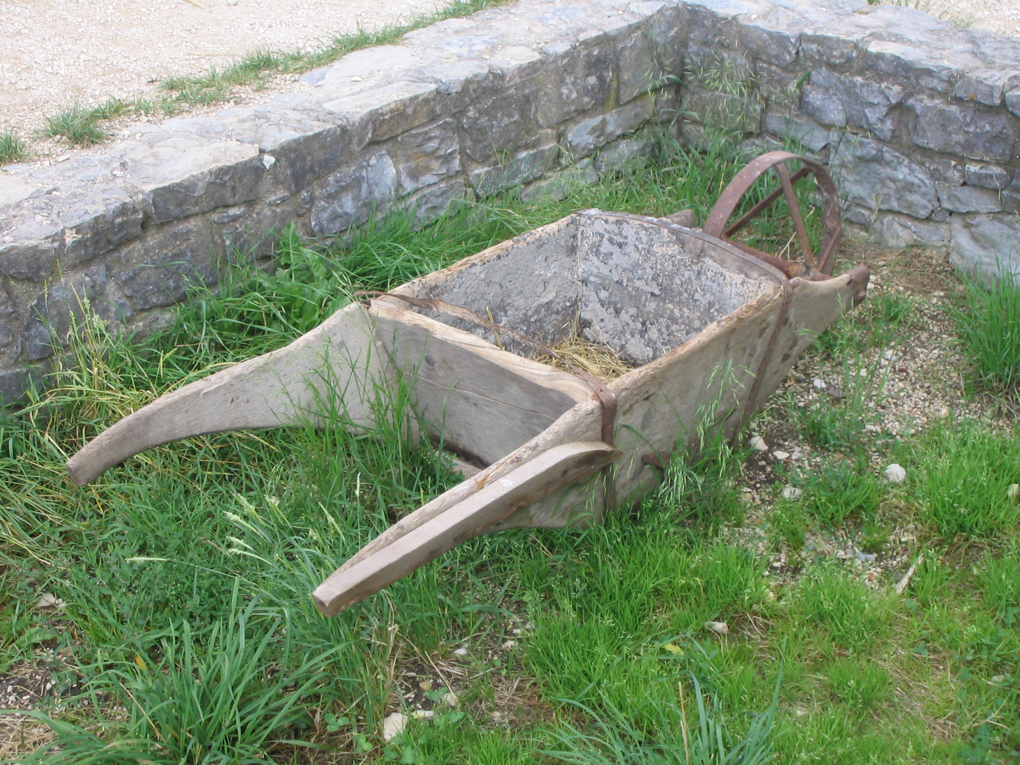 Wheelbarrow at the Freilichtmuseum Neuhausen ob Eck